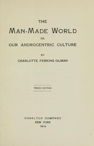 The man-made world; or, Our androcentric culture (1914) 3er edit. New York.